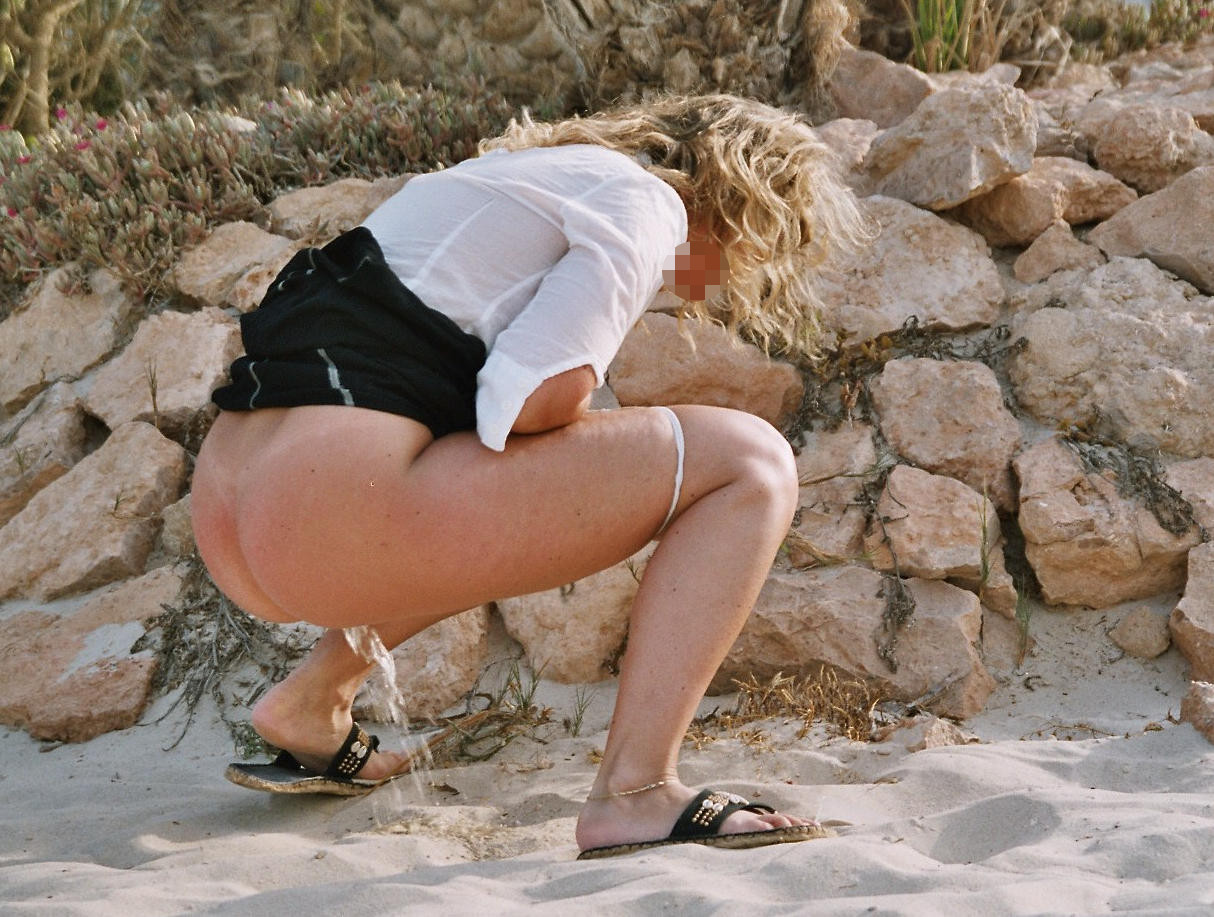 Blonde woman squatting and urinating on sand